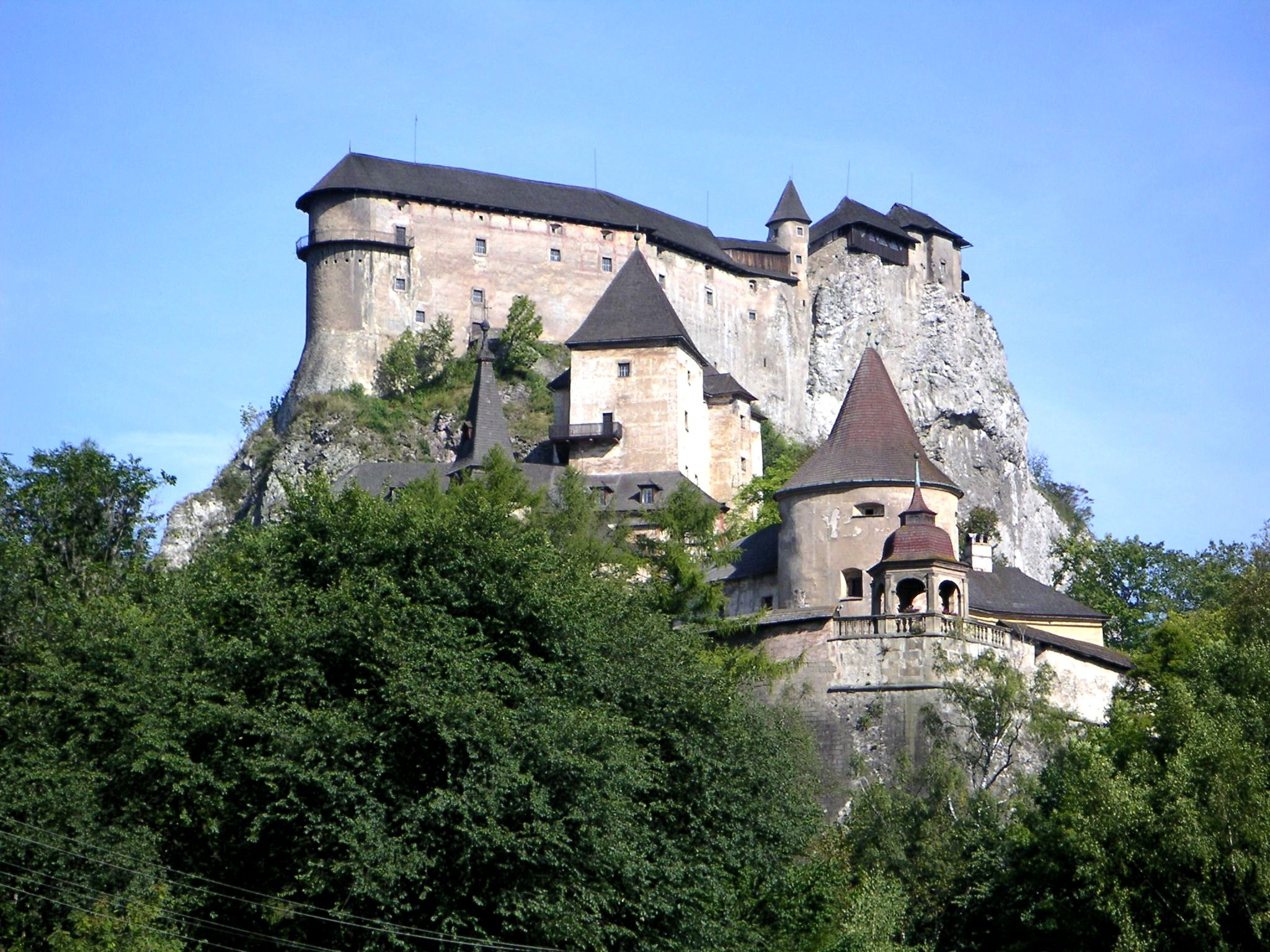 Oravsky Podzamok, Slovakia